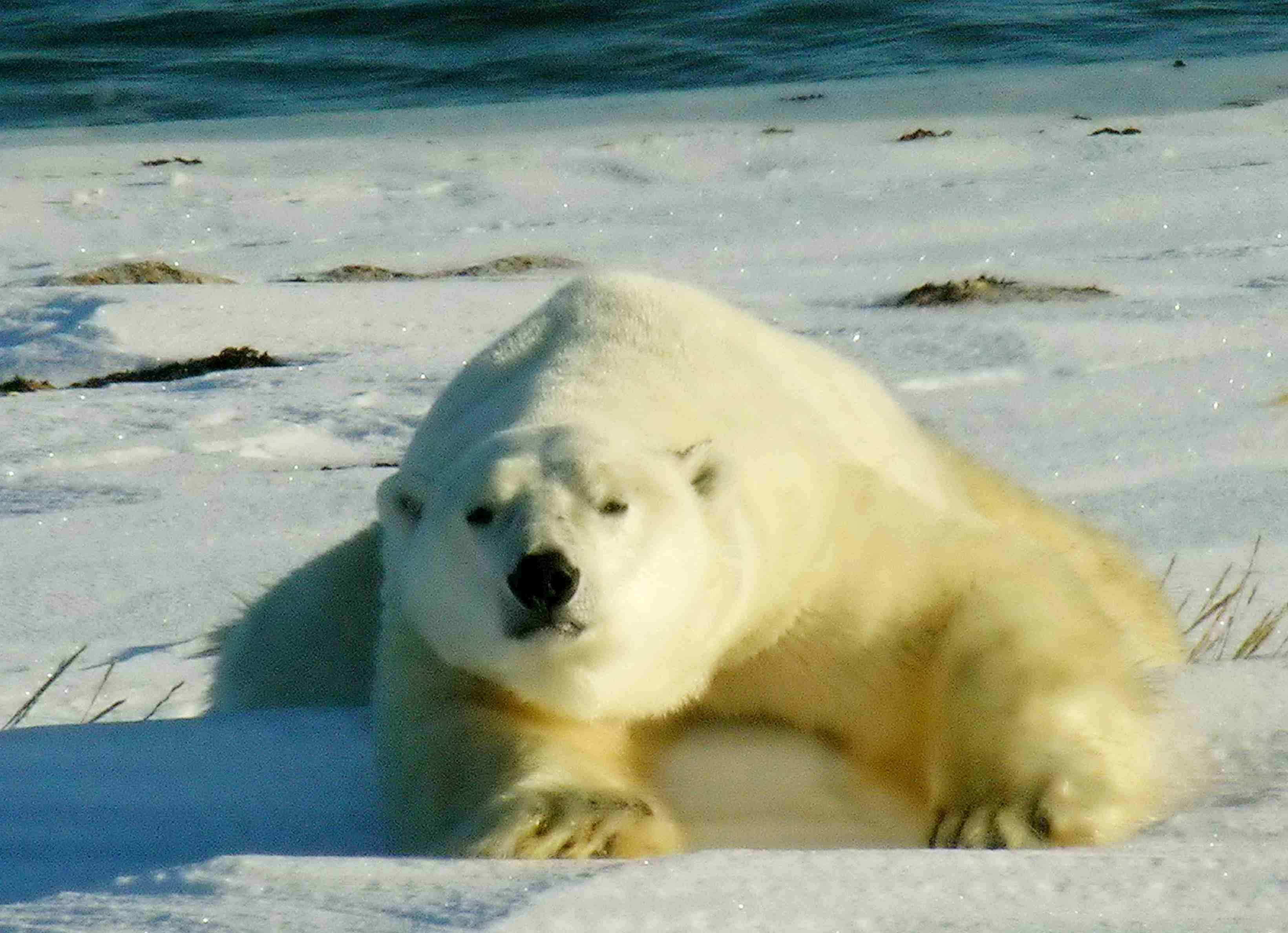 Polar Bear near Cape Churchill